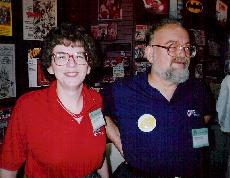 The legendary editors of The Comics Buyers Guide (Maggie & Don Thompson) at the 1992 San Diego Comic Con.